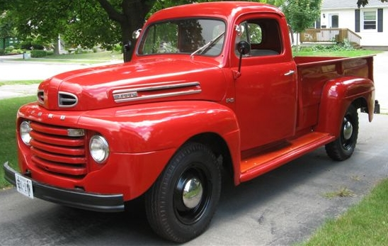 1950 Ford F3